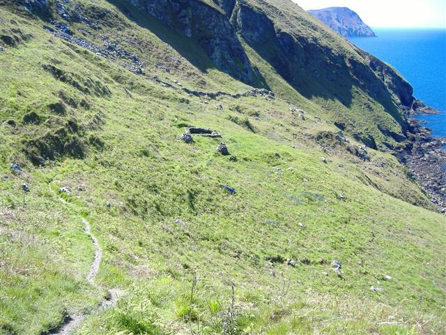 Lag ny Keeilley, West slope of Cronk ny Arrey Laa. Means hollow of the chapel, well illustrated in this view.